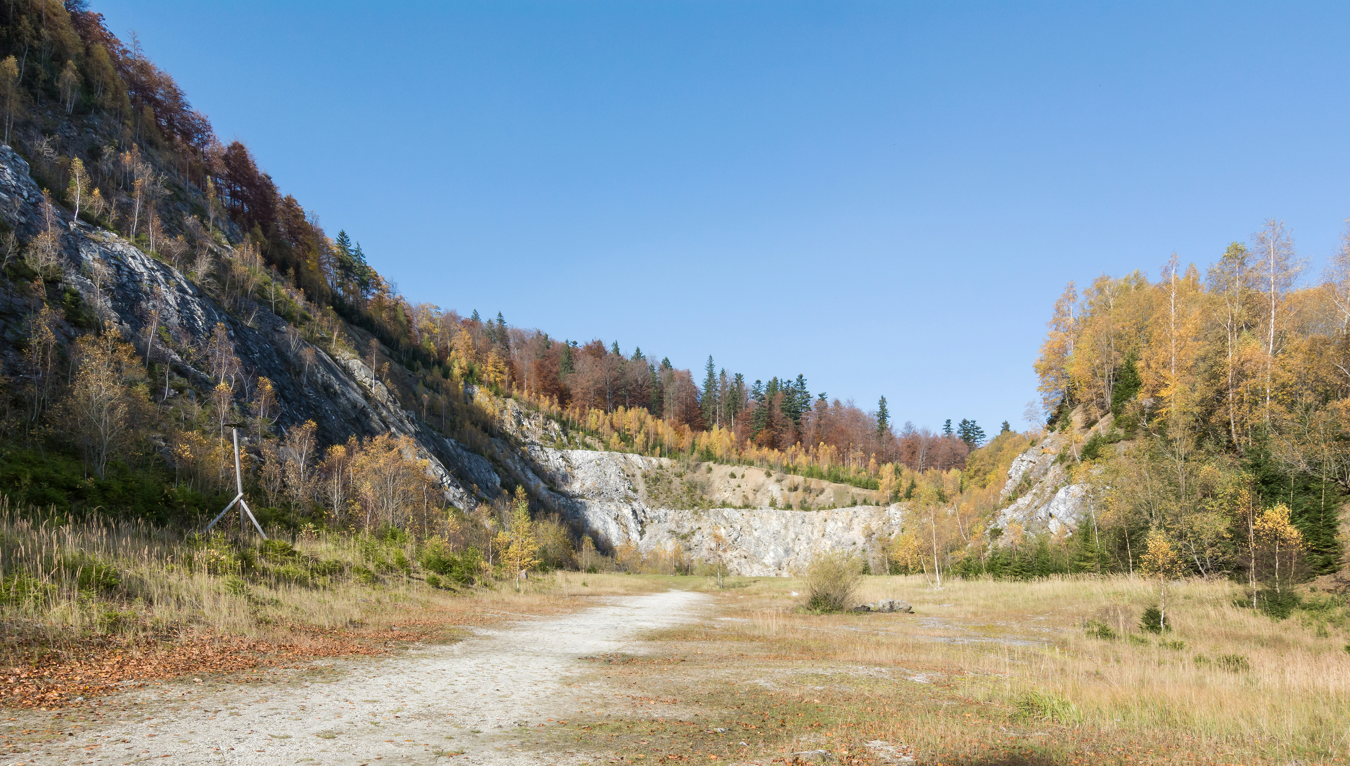 Kletno I quarry in Kletno